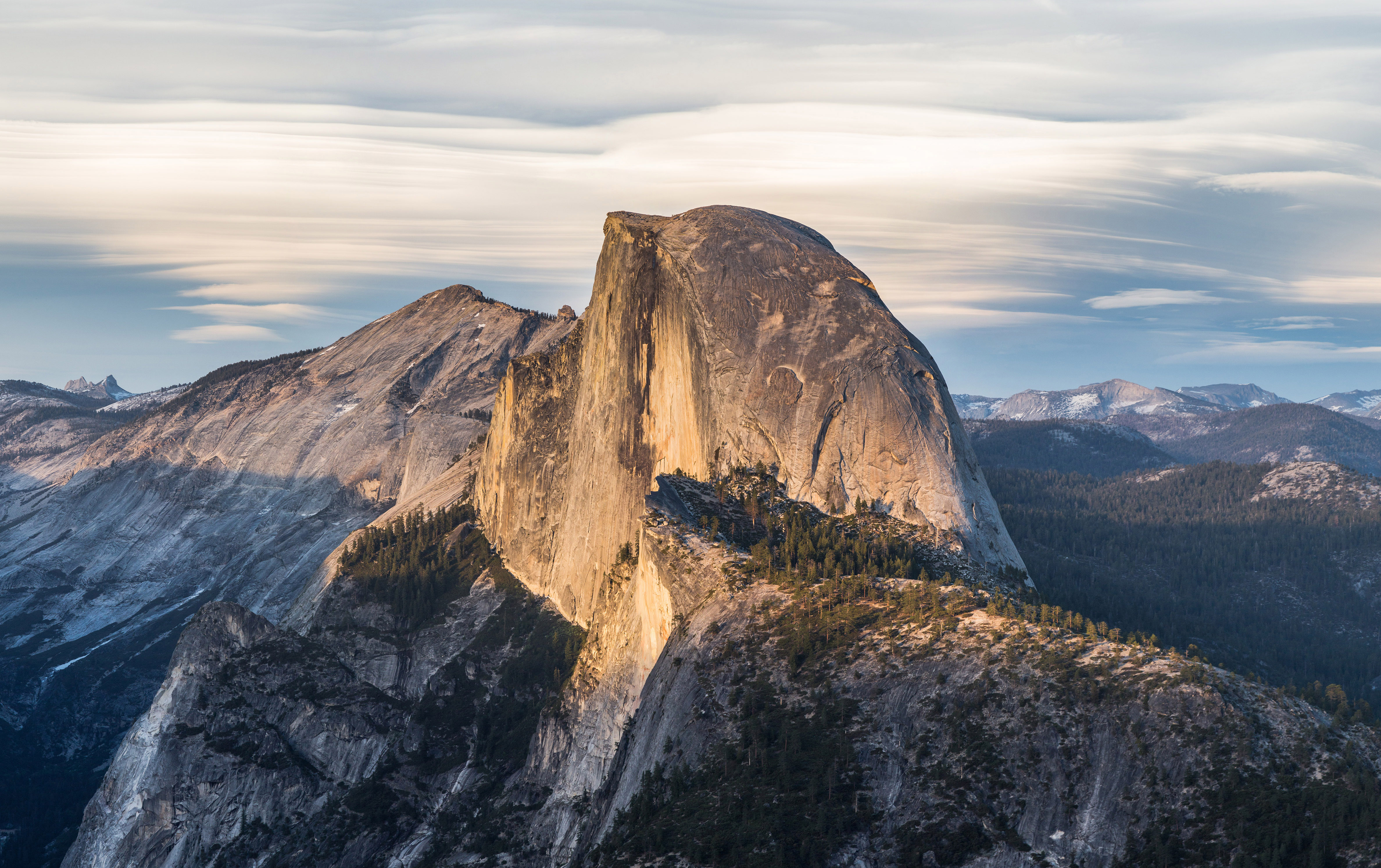 Half Dome as viewed from Glacier Point, Yosemite National Park, California, United States.